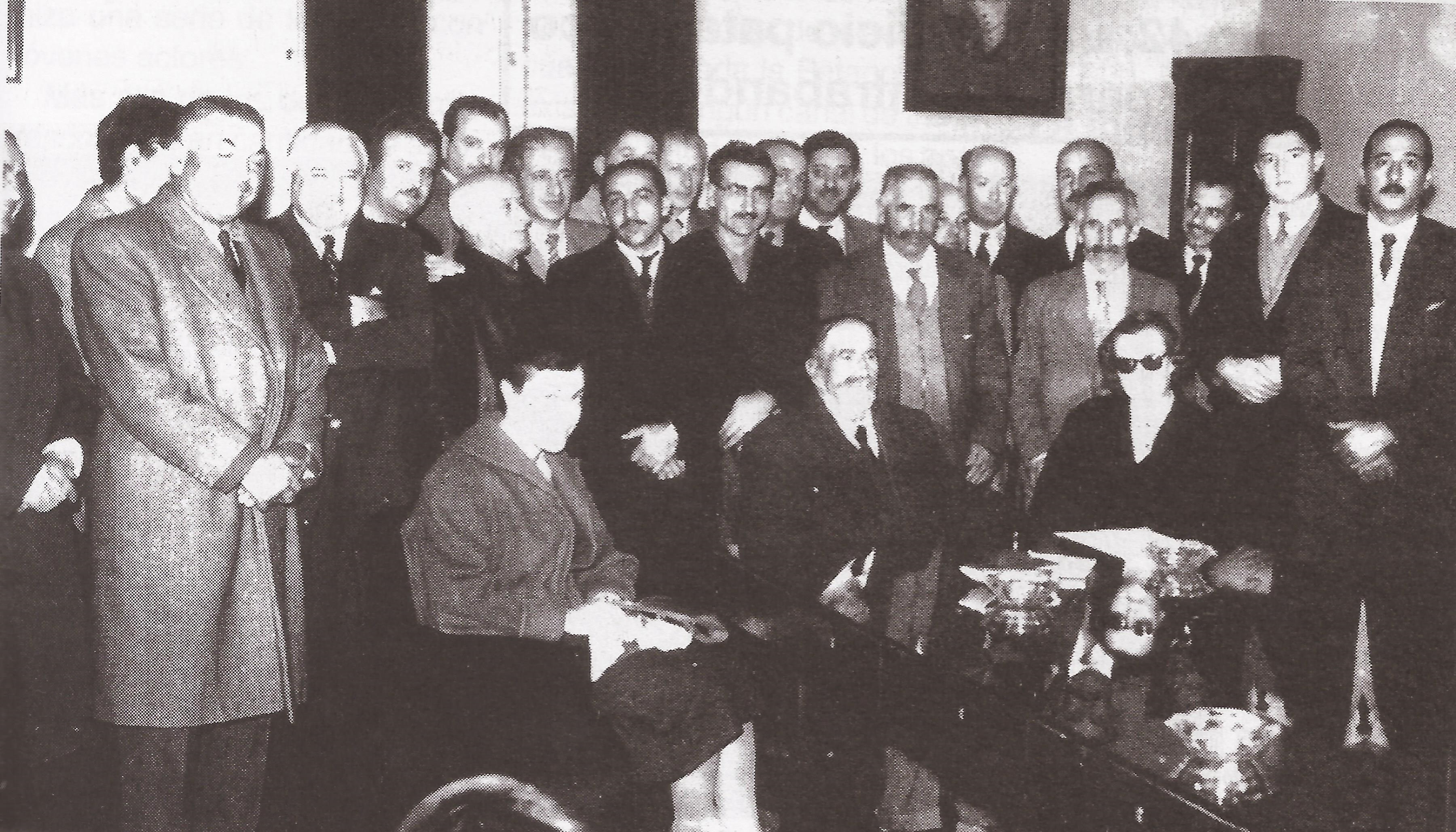 Meeting of advocates of naming Comodoro Rivadavia as the capital of newly-established Chubut Province; Rawson was chosen instead.